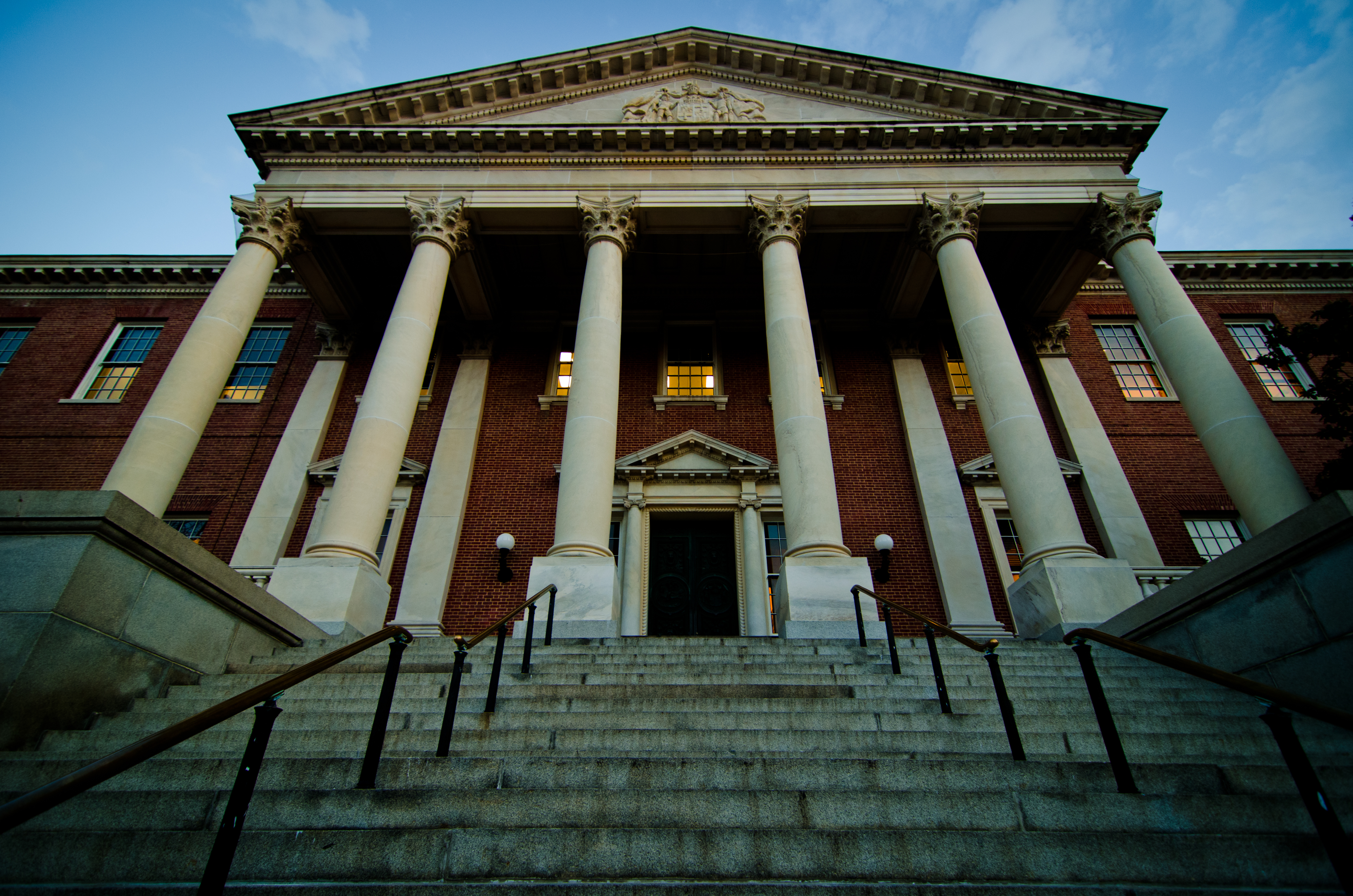 Front of Maryland State House, Annapolis, MD.